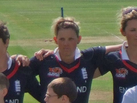 English cricket Laura Newton fielding during the 2009 Women's World Twenty20 in Taunton